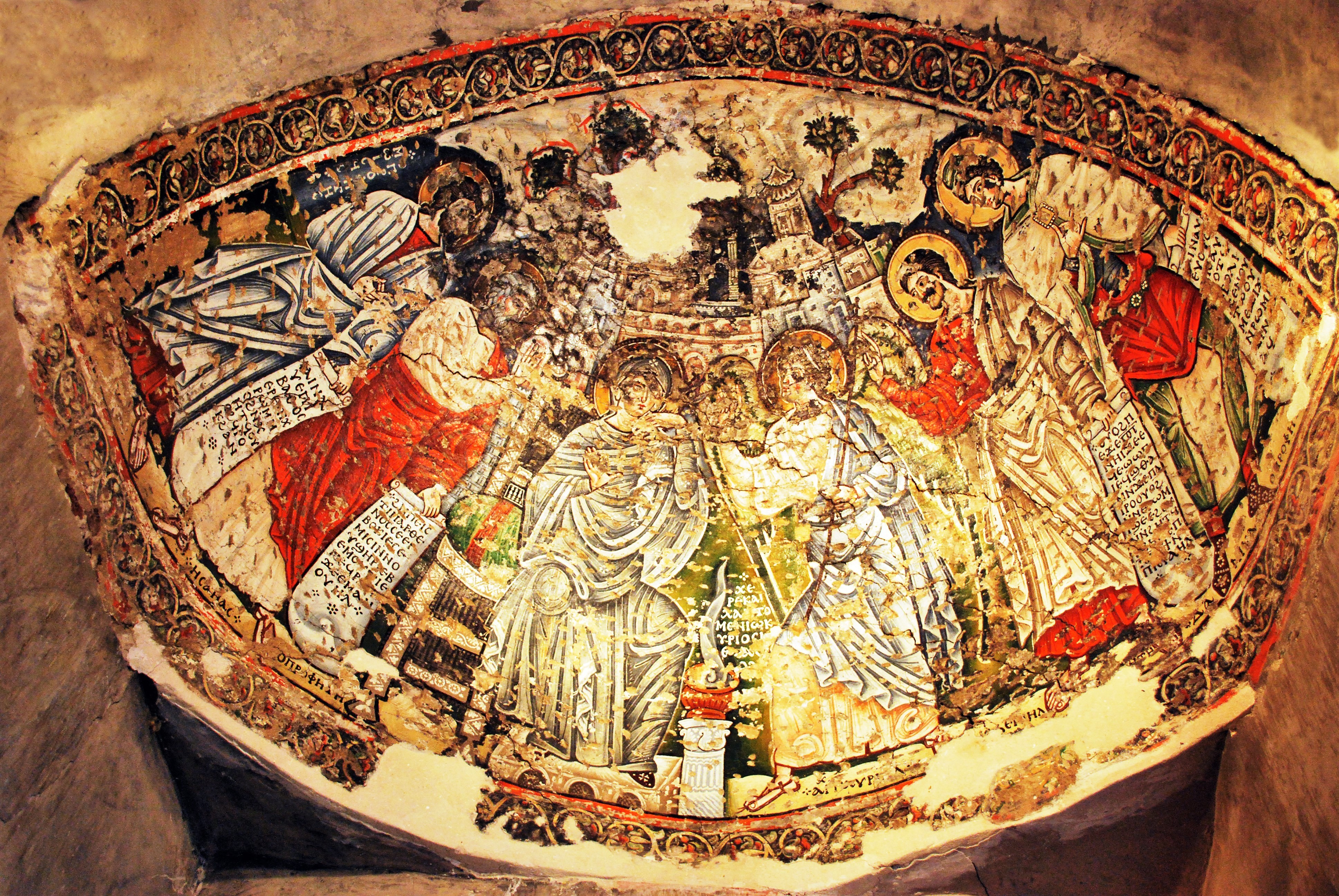 Coptic Fresco at Wadi Natrun monastery: fresco of the Annunciation Amidst Four Prophets. From left to right: Moses, Isaiah, the Virgin Mary, Archangel Gabriel, Ezekiel, and Daniel, in the Church of the Holy Virgin Mary. The Fresco was under a syrian layer, which was removed in 2007.